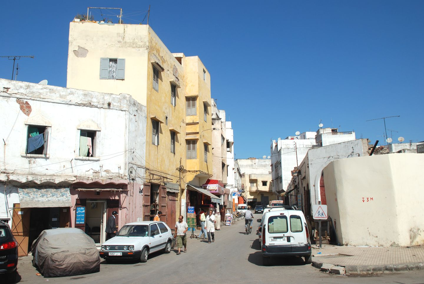 Salé, Morocco, southeast part of old town